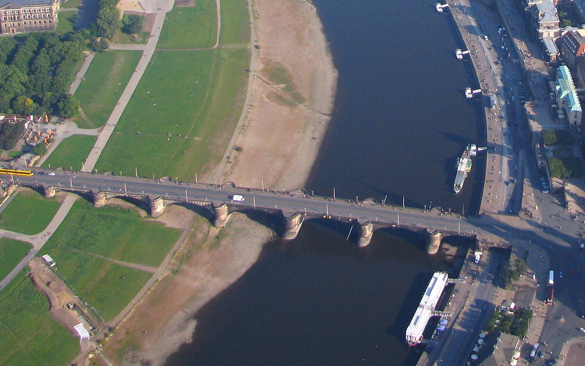 Aerial photo Dresden Augustus bridge Augustusbrücke from Neustadt left to city right across river Elbe tram and street bridge Foto 2008 Wolfgang Pehlemann IMG_0390